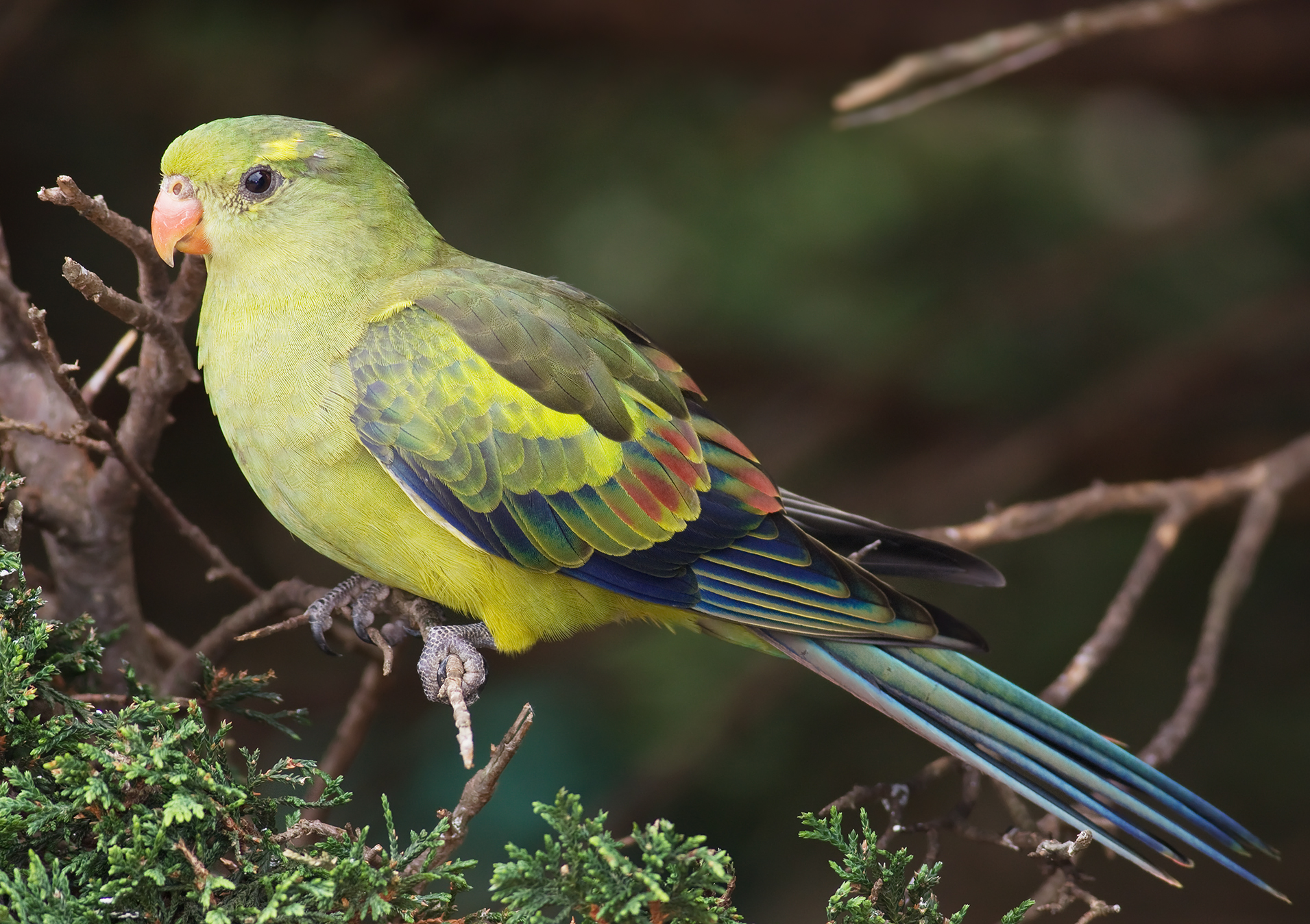 A juvenile Regent Parrot (Polytelis anthopeplus) at the Bird Walk (Walk-in Aviary), Canberra, Australian National Territory, Australia.